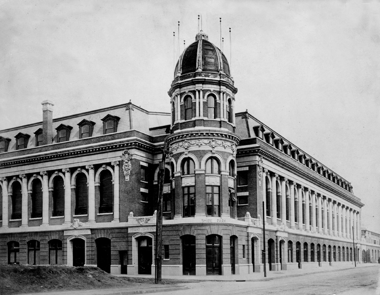 The Grand Stand entrance of the Philadelphia Shibe Park baseball stadium